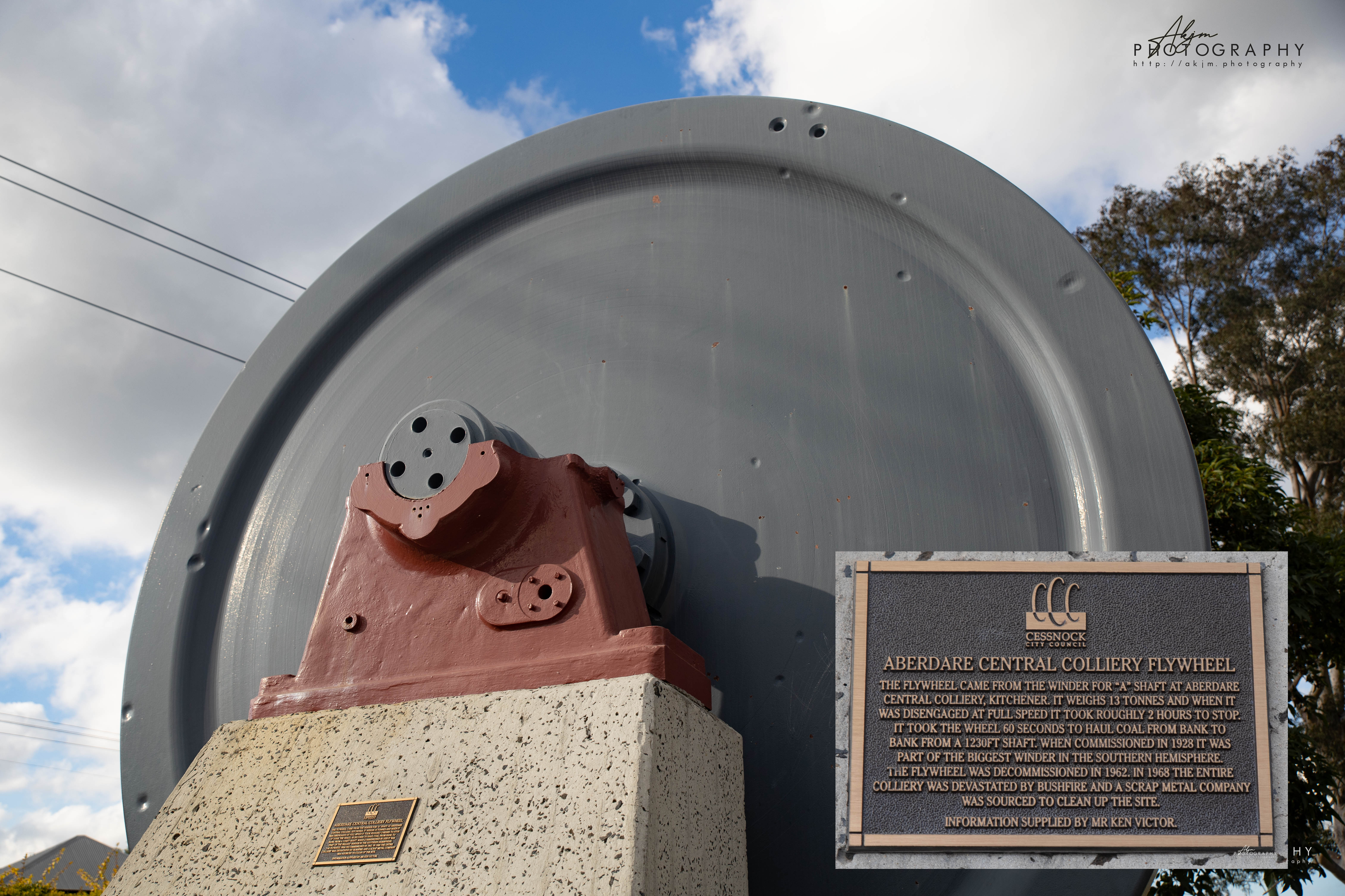 The flywheel came from the winder for "A" shaft at Aberdare Central Colliery, Kitchener. It Weighs 13 tonnes and when it was disengaged at full speed it took roughly 2 hours to stop. It took the wheel 60 seconds to haul coal from bank to bank from a 1230ft shaft. When commissioned in 1928 it was part of the biggest winder in the Southern Hemisphere. The flywheel was decommissioned in 1962 - Mr Ken Victor